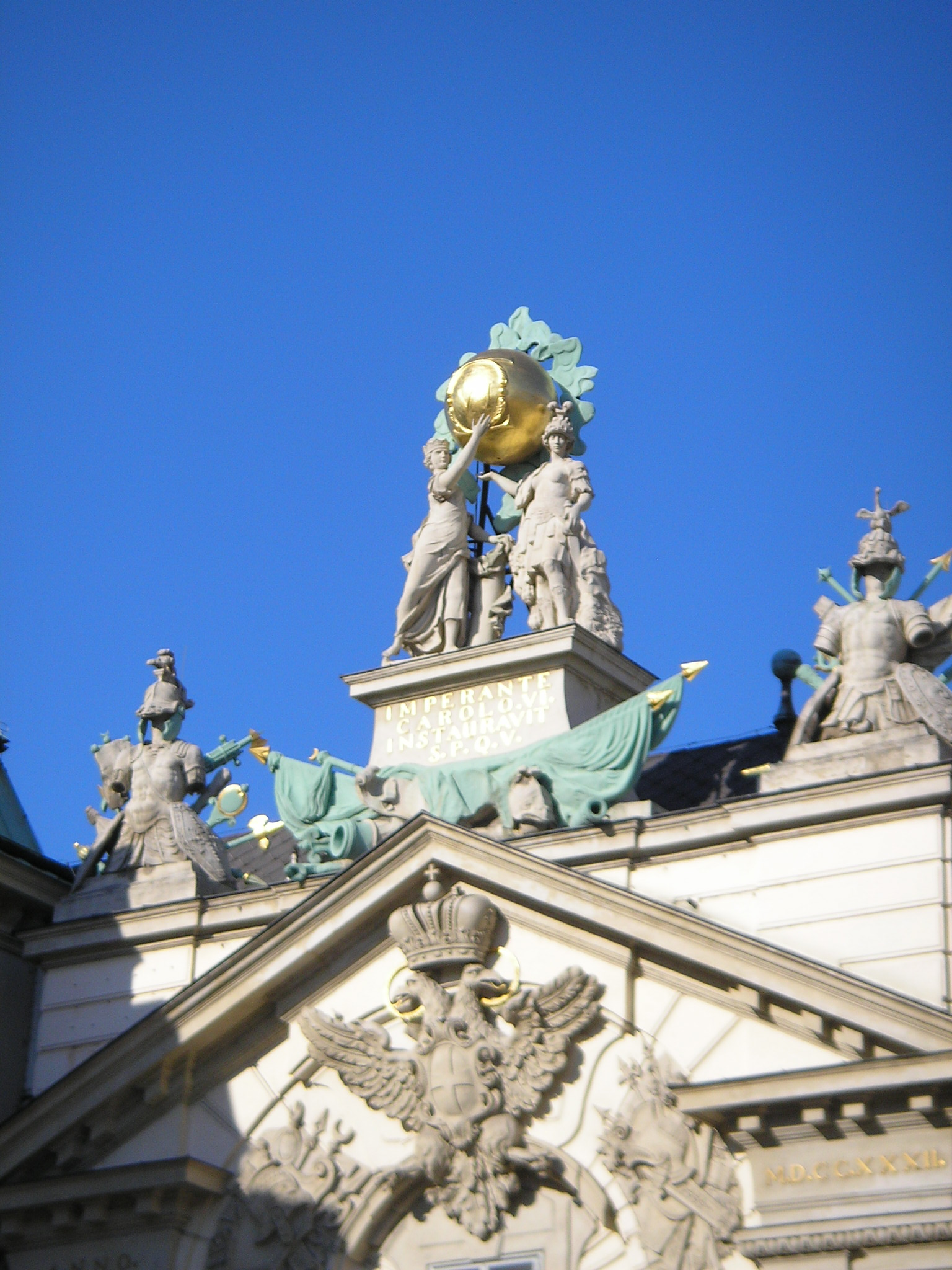 The Bürgerliches Zeughaus in Vienna's first district, located at Am Hof.